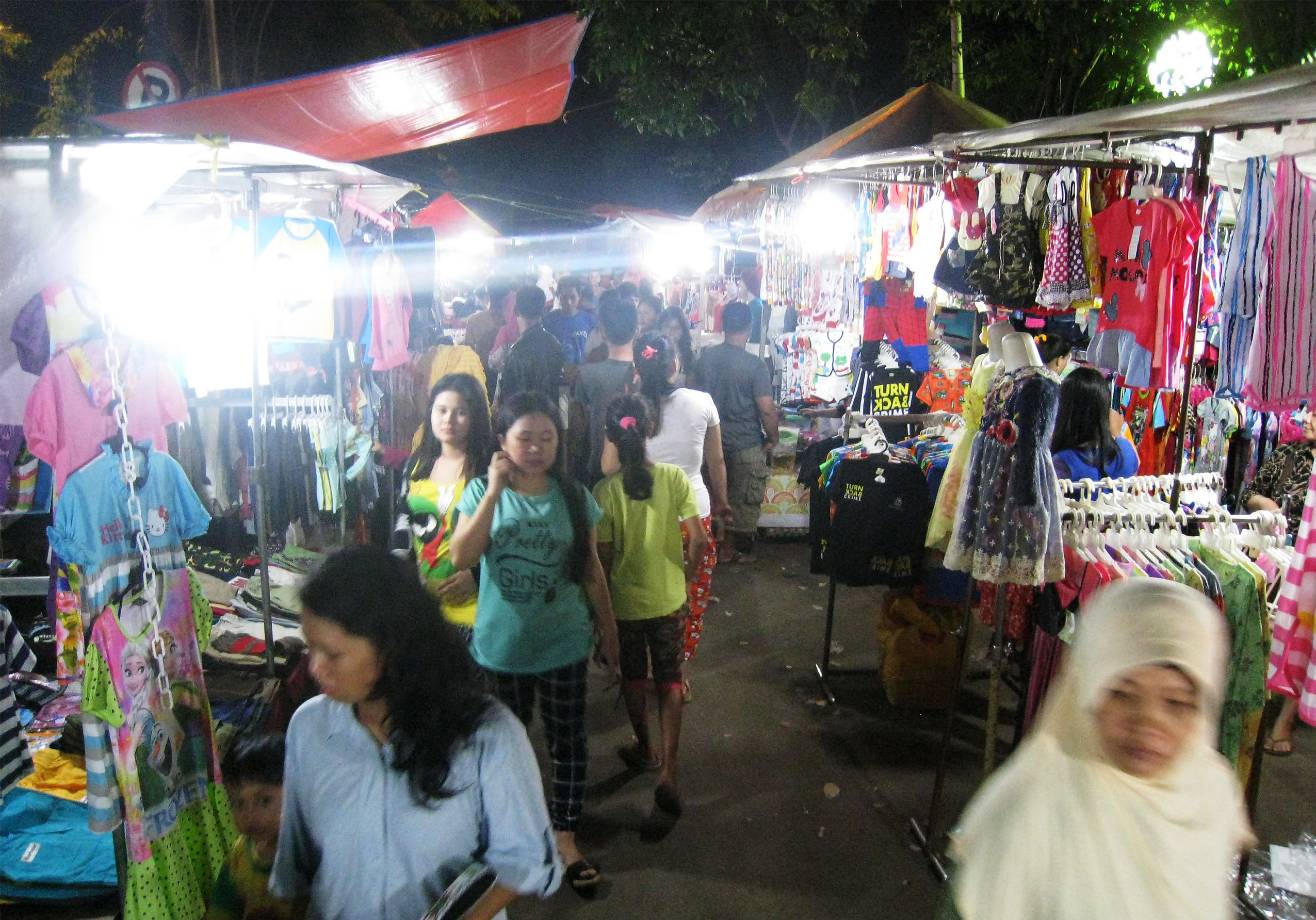 Clothing on display at Pasar Malam (night market) every Saturday night at Rawasari, Central Jakarta, Indonesia.